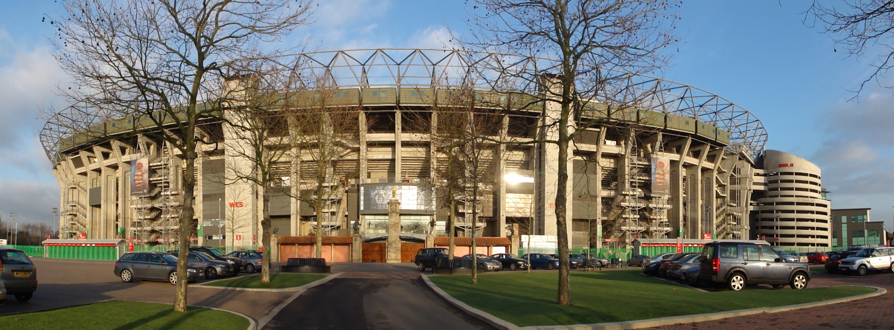 Panorama of the West Stand at Twickenham Rugby Stadium